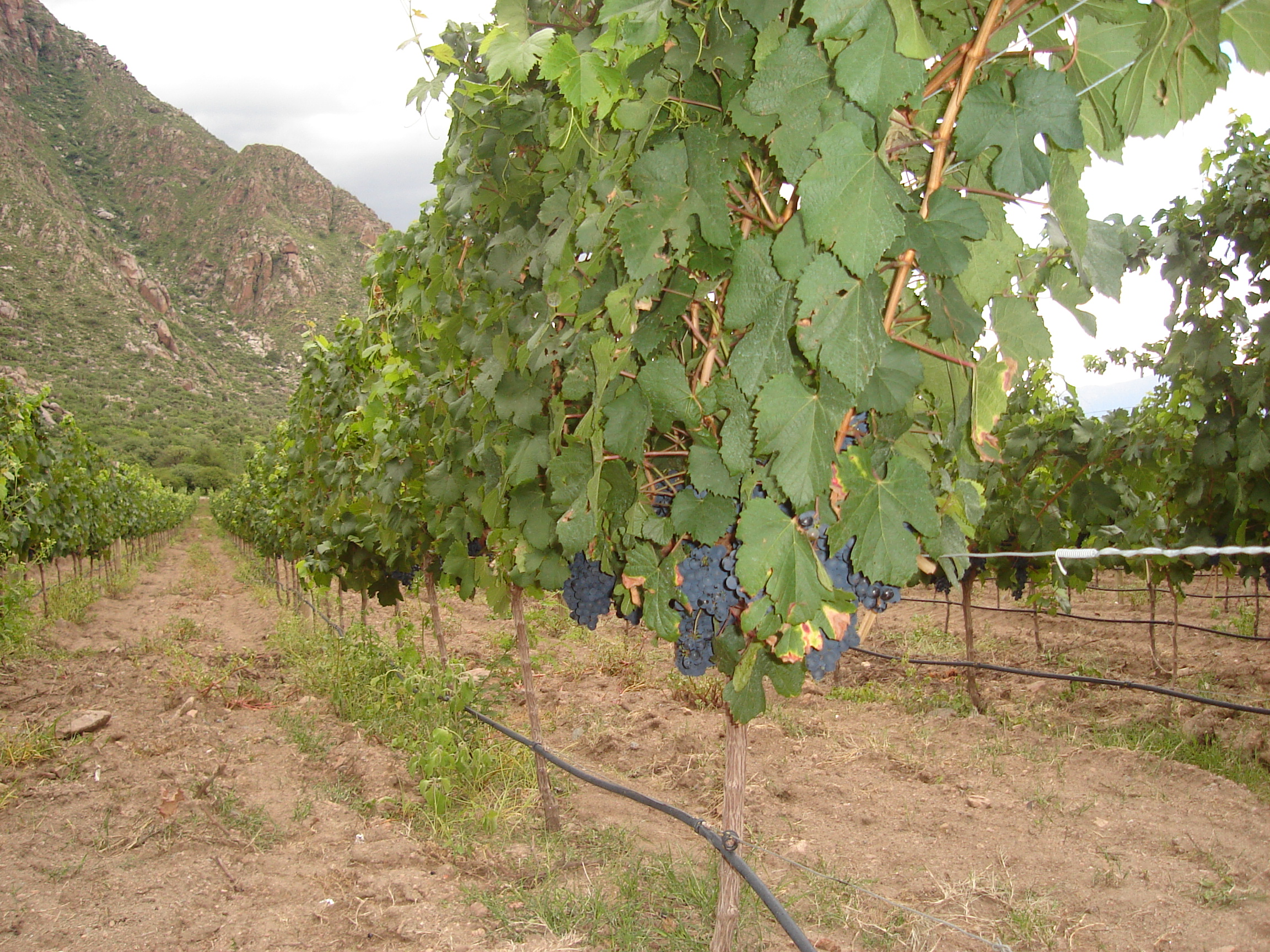 Malbec grapes on the vine in the Cafayate wine region of Argentina. This pic also demonstrates the trellising vine training used with drip irrigation system running along the bottom.